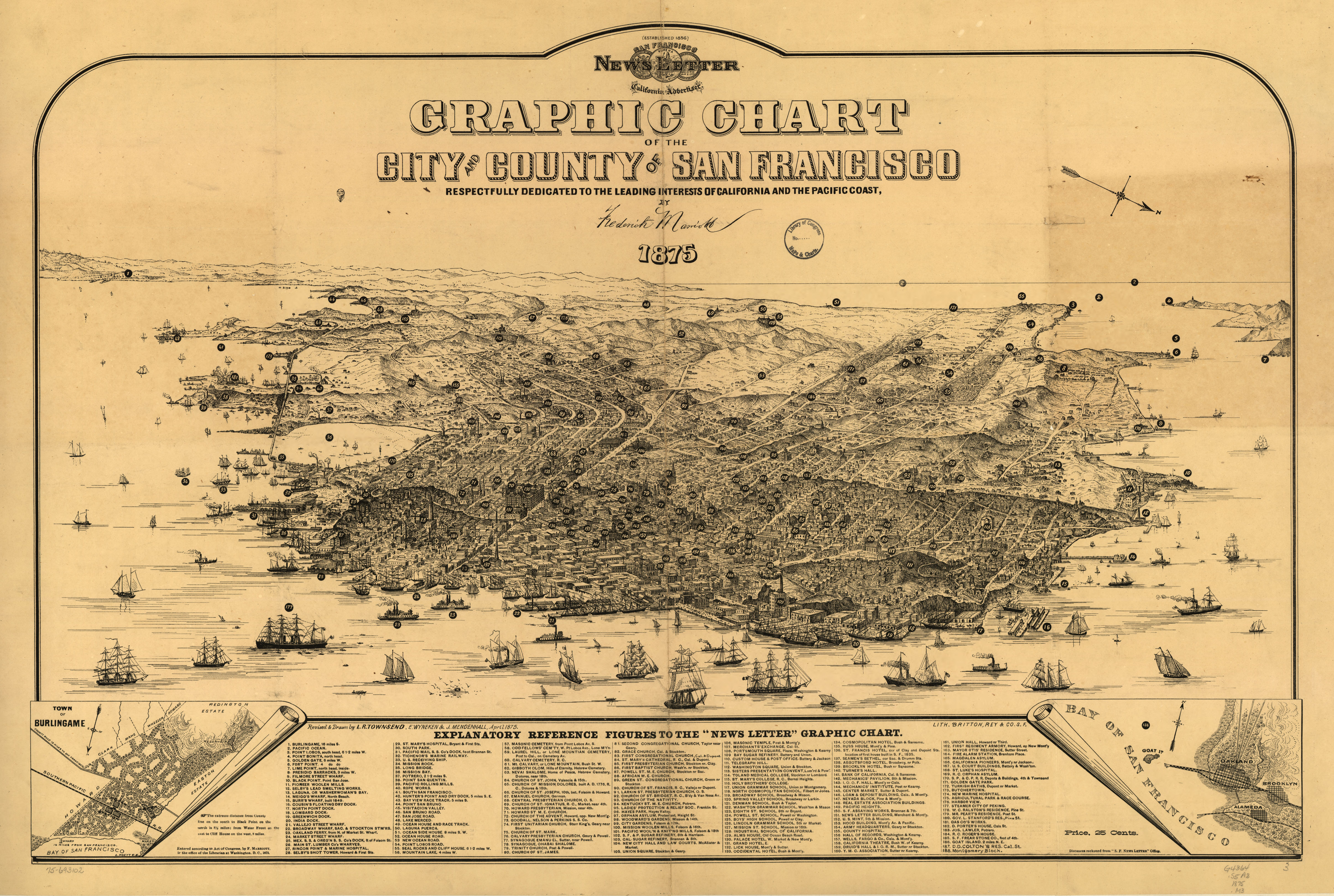 Perspective map not drawn to scale. At head of title: San Francisco newsletter, California Advertiser. Bird's-eye-view. Oriented with north toward the lower right. Includes index to points of interest and insets "Town of Burlingame" and "Bay of San Francisco." LC Panoramic maps (2nd ed.), 36 Available also through the Library of Congress Web site as a raster image. AACR2: 651/1; 710/4